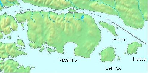 Omora Park, near Puerto Williams (Navarino Is.)